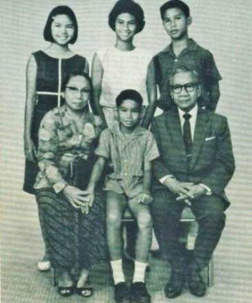 Kuala Lumpur Tahun 1963, Margono Djojohadikusumo (duduk kanan) Prabowo Subianto (kanan atas), Hasjim Djojohadikusumo (duduk tengah)